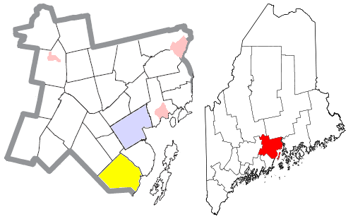 Map of the divisions of Waldo County, Maine, United States, with the town of Lincolnville highlighted in yellow. The city of Belfast is light blue; other towns are white; and pink areas are census-designated places within towns.